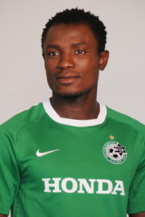 Seido YaYa סיידו יאיא